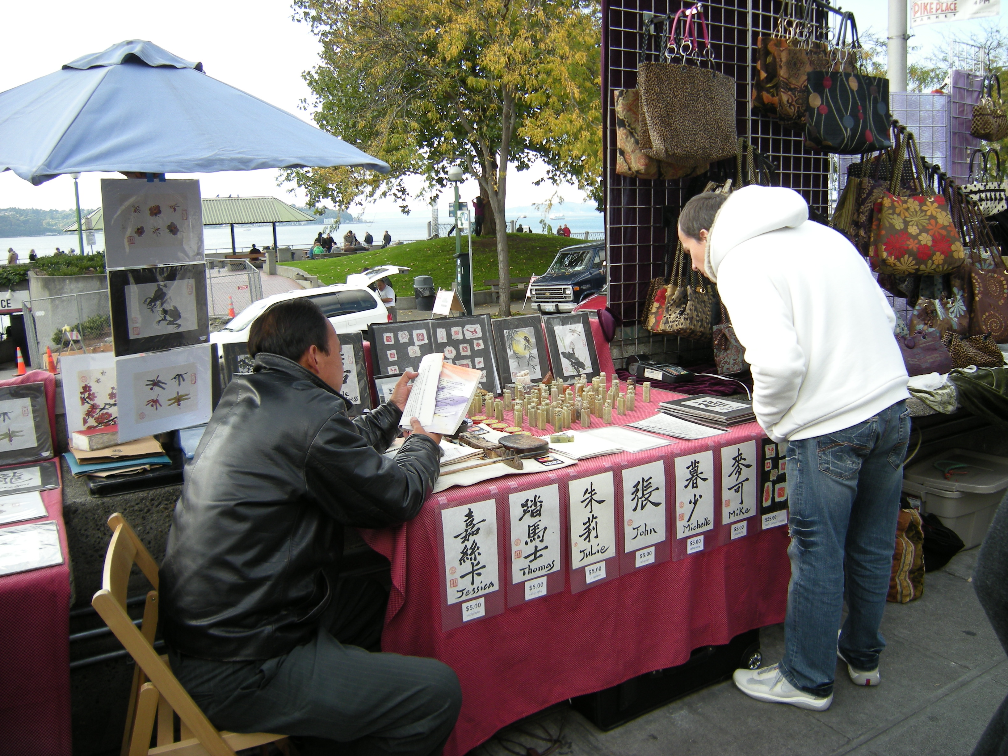 Chinese seal (chop) carver at an outdoor craft daystall near the north end of Pike Place Market, Seattle, Washington.